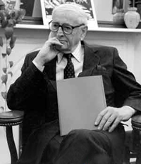 John Gardner photo from White House Fellows release